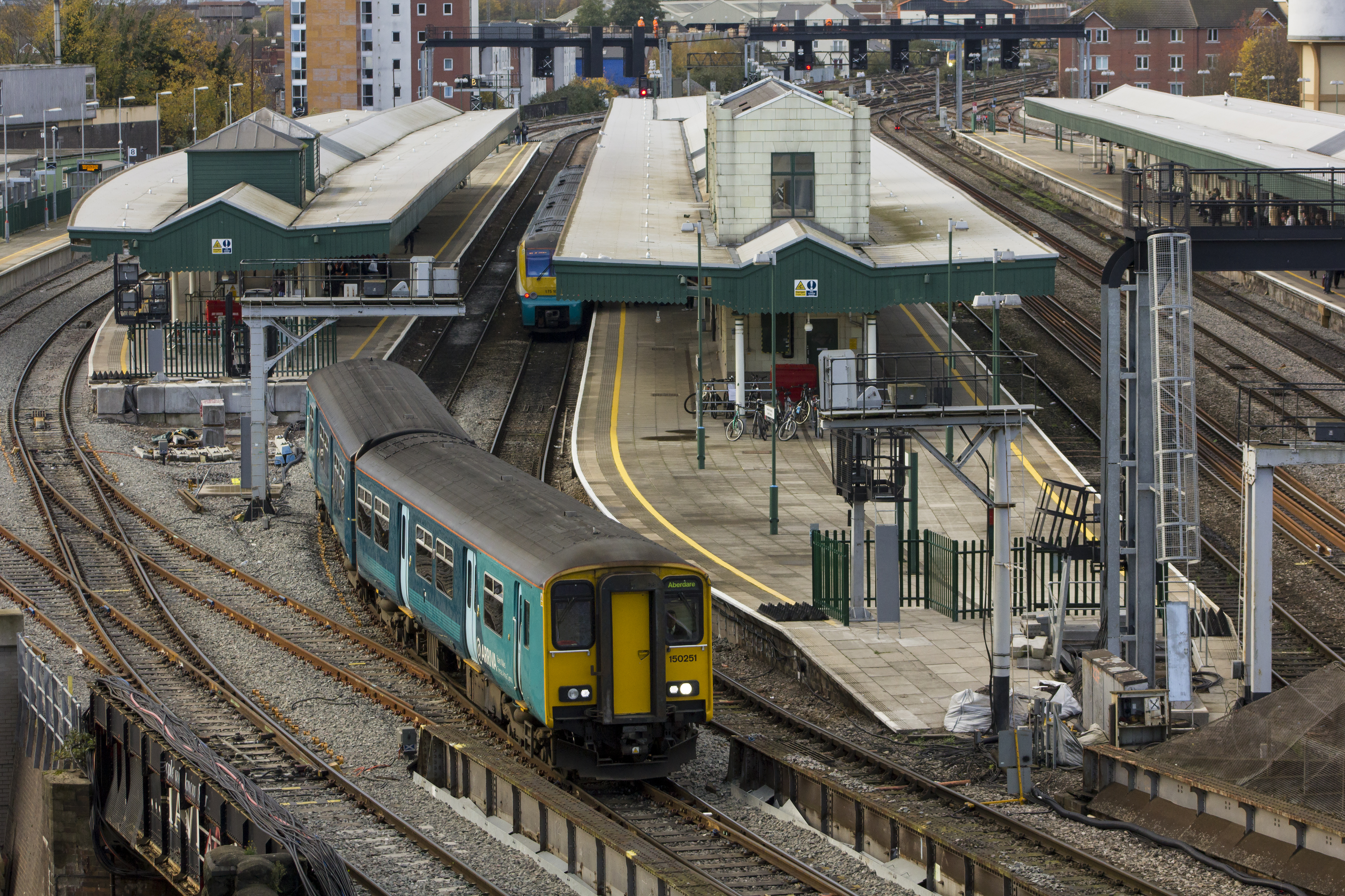 Arriva Trains Wales' 150251 is seen leaving Cardiff Central with the 2A30 1241 Barry Island to Aberdare service on 18th November 2016. Just to the left of the photo can be seen the new turnout which links the existing layout with the line into Platform 8 (yet to be opened).